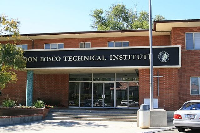 Don Bosco Technical Institute Administration Building photo